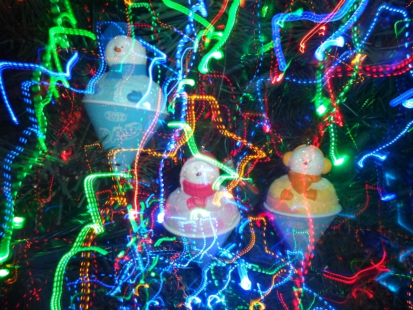 Christmas Lights and Christmas Ornaments with Cool Light Effect